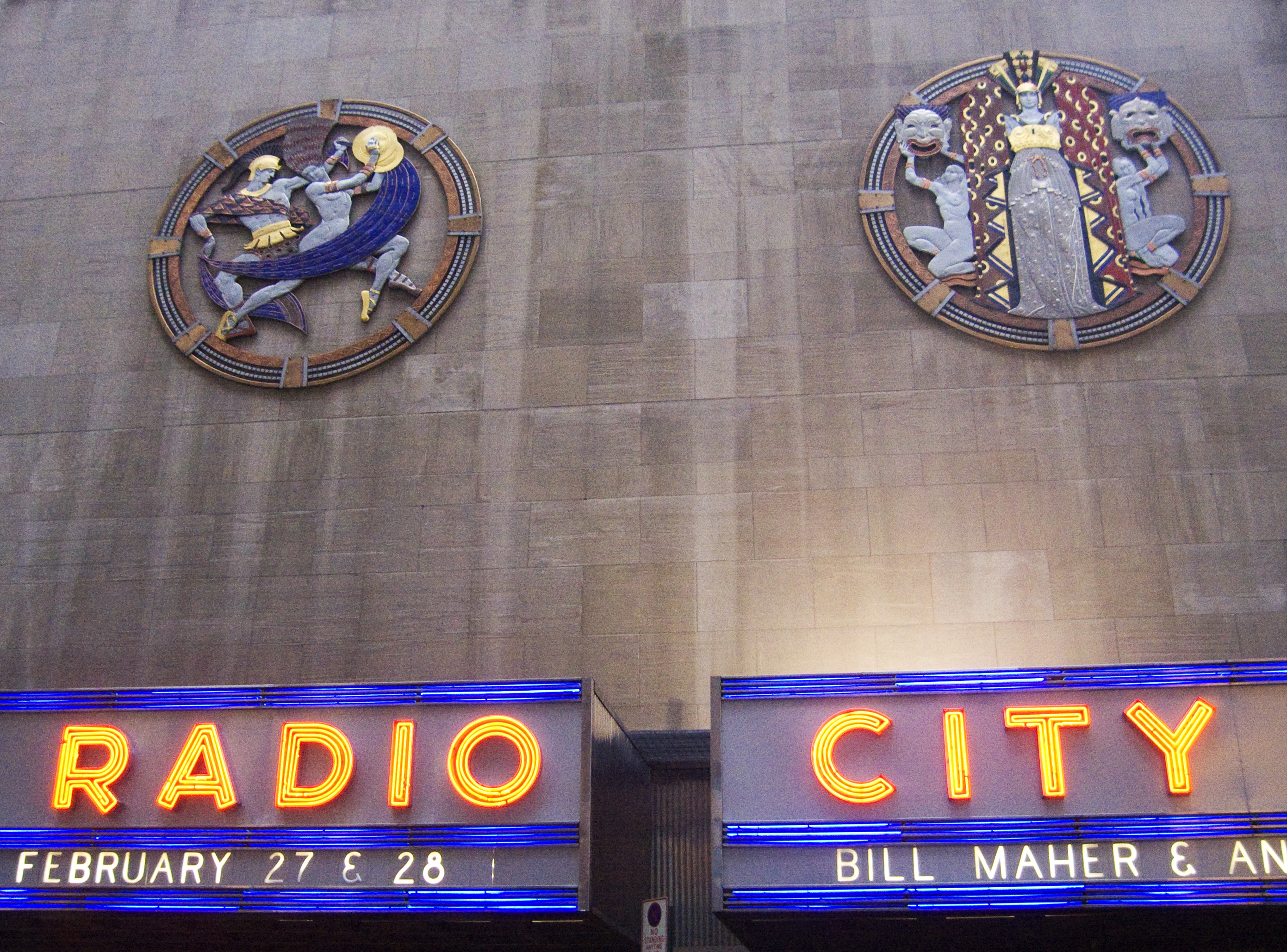 Wikipedia Loves Art at the Film Society of Lincoln Center This photo of Radio City Music Hall supported by the Film Society of Lincoln Center was contributed under the team name "The_Grotto" as part of the Wikipedia Loves Art project in February 2009. The original photograph on Flickr was taken by cjn212—please add a comment to the original Flickr page whenever a use has been made on Wikipedia or another project. Project galleries on Flickr: this institution, this team